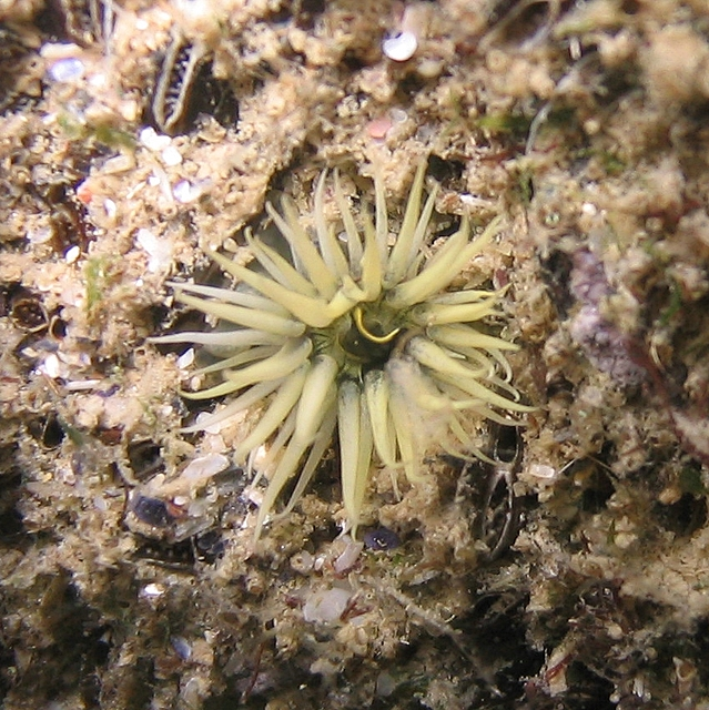 Black Sea actinia